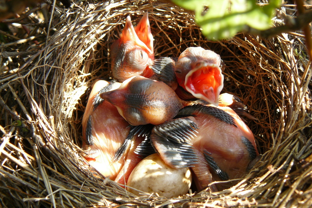 Sylvia atricapilla